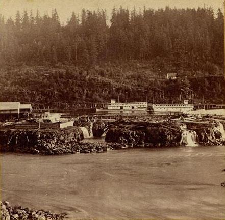 Boat basin just above Willamette Falls built on the east side of the Willamette River. Taken in 1867. Shows three steamboats (all sternwheelers) in the boat basin. Portage tramways connected the dock at the boat basin to a steamboat landing below the falls.